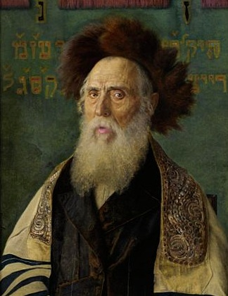 Portrait of a rabbi with a fur hatTiếng Việt: Tranh chân dung vẽ một sư phụ người do thái đội mũ nồi lông